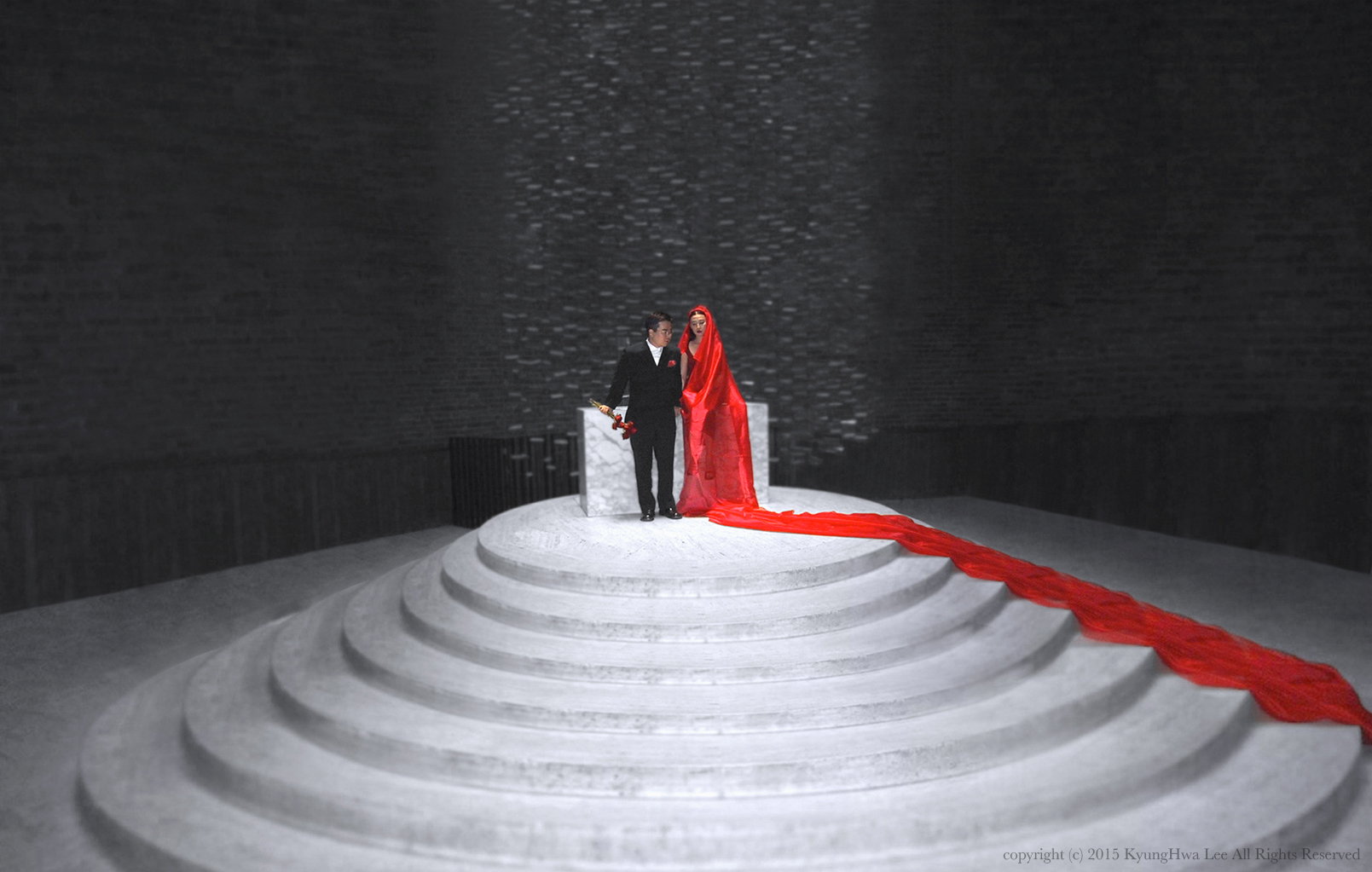 Transition In-Between: Performance Art: Opening Ceremony for the Event[edit source]